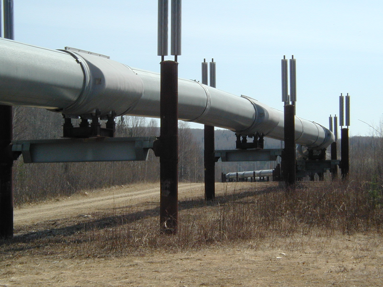 RV 2002 Stop in Fairbanks